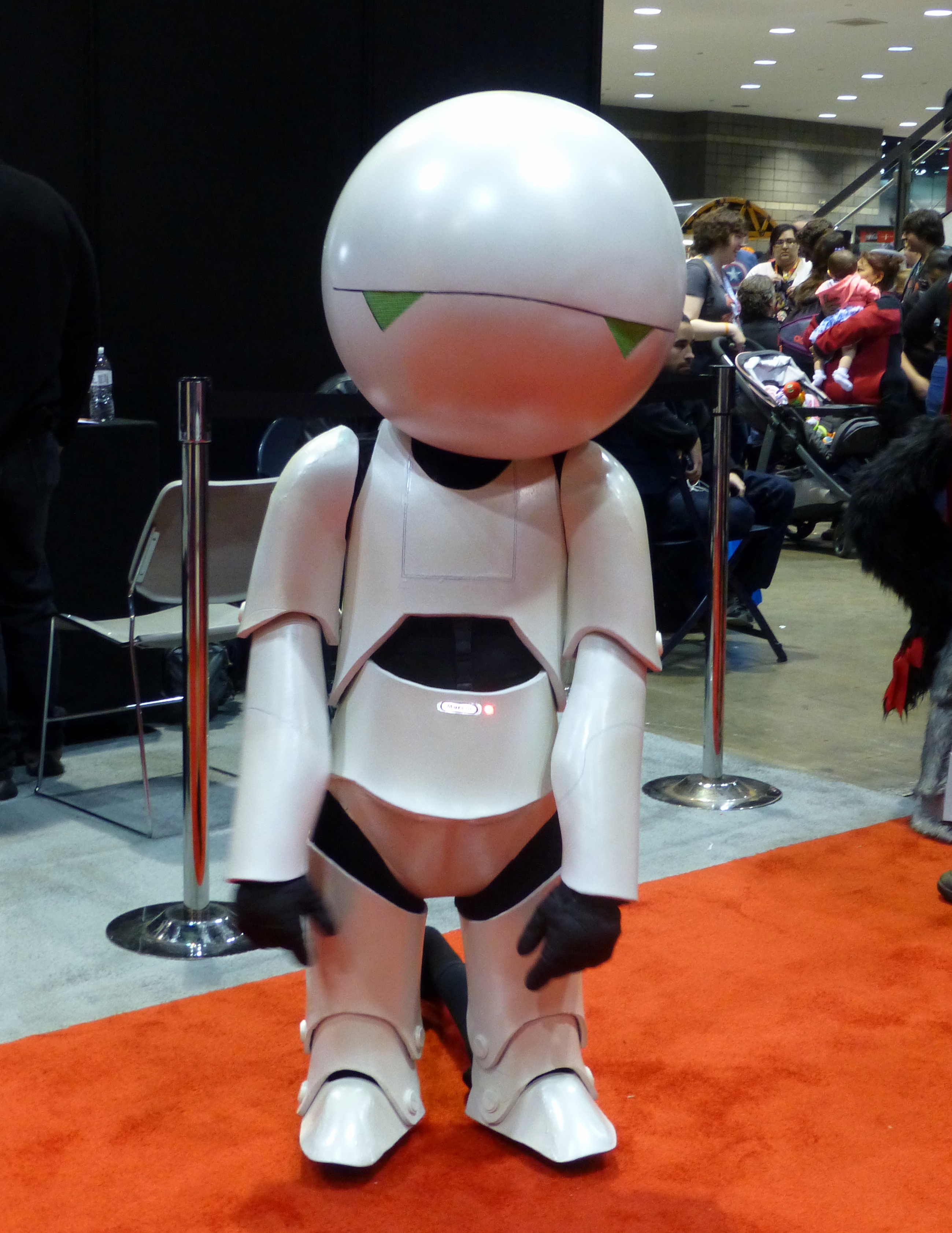 Marvin the Paranoid Android from The Hitchhiker's Guide to the Galaxy (film) Cosplay at Chicago Comic & Entertainment Expo (C2E2) 2015.